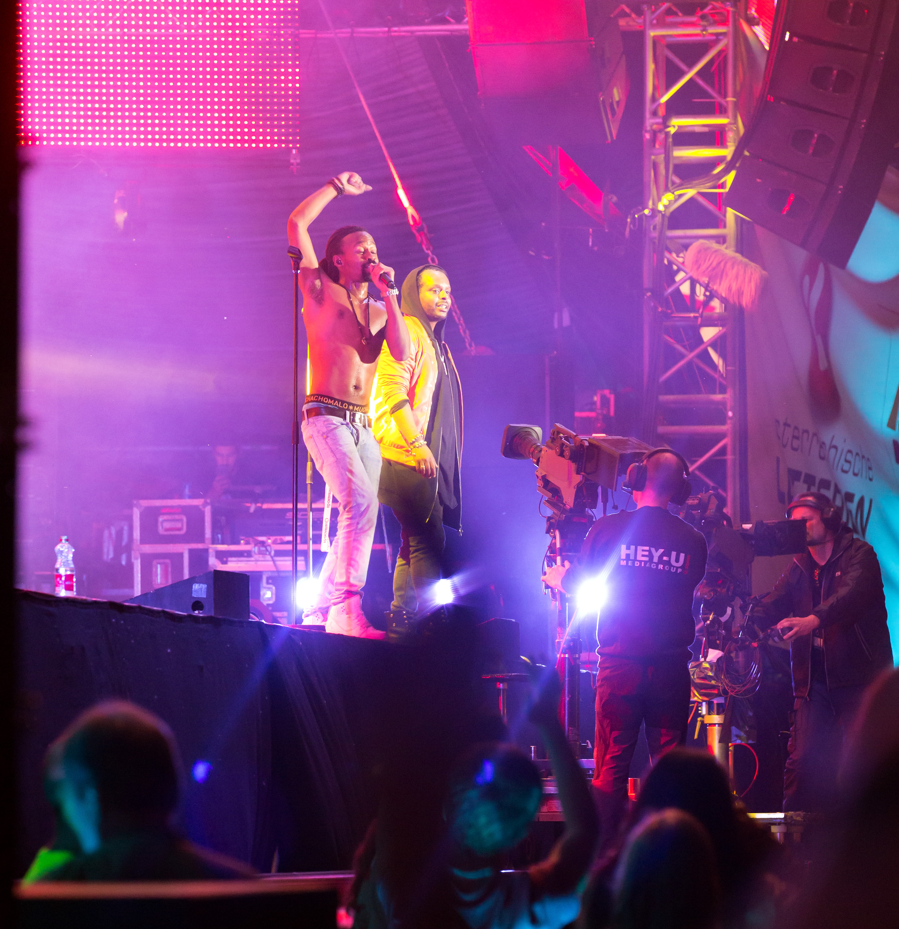 Madcon at Donauinselfest 2015 in Vienna, Austria